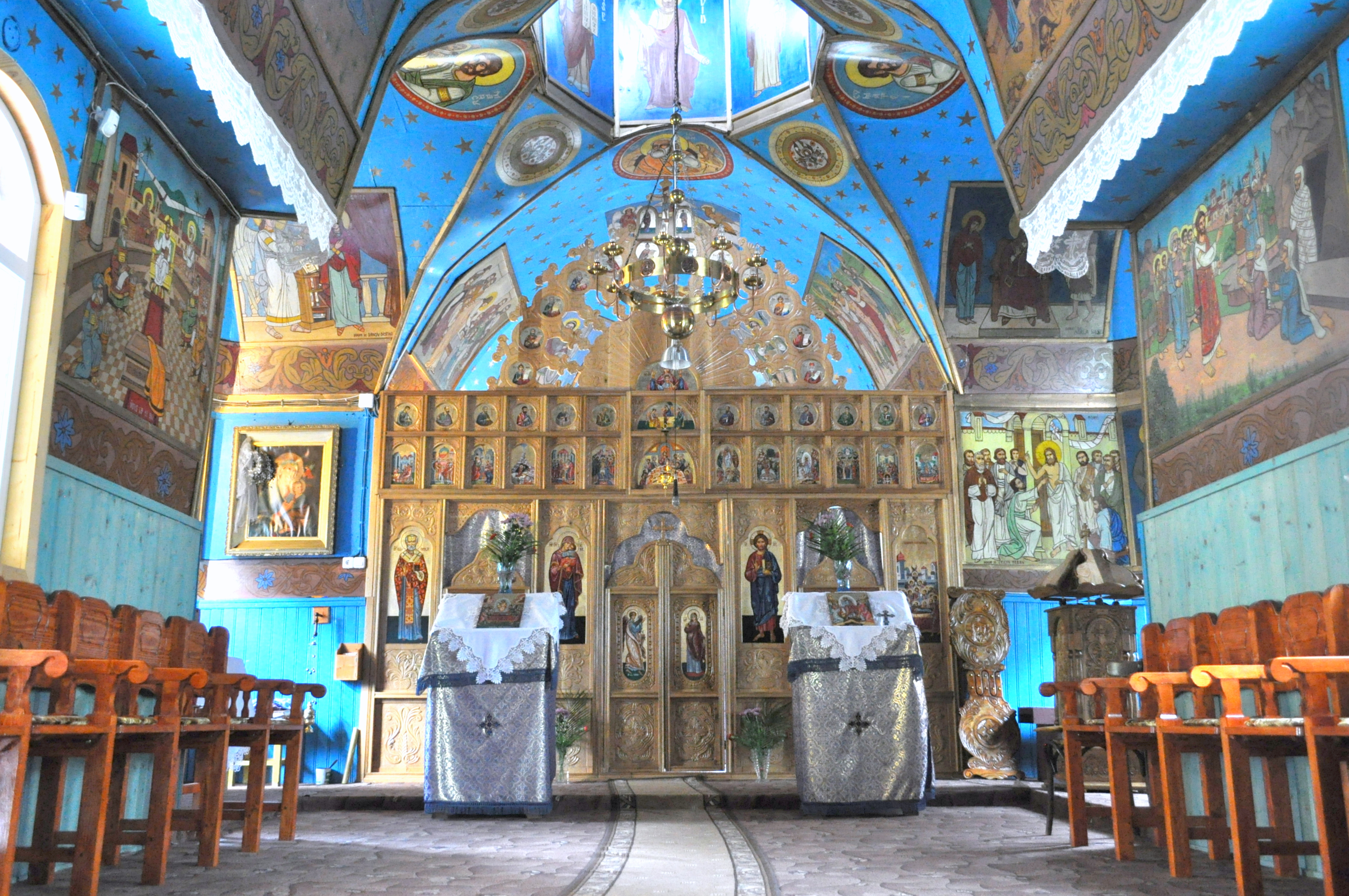 The wooden church in Măguri-Răcătău, Romania (interior)